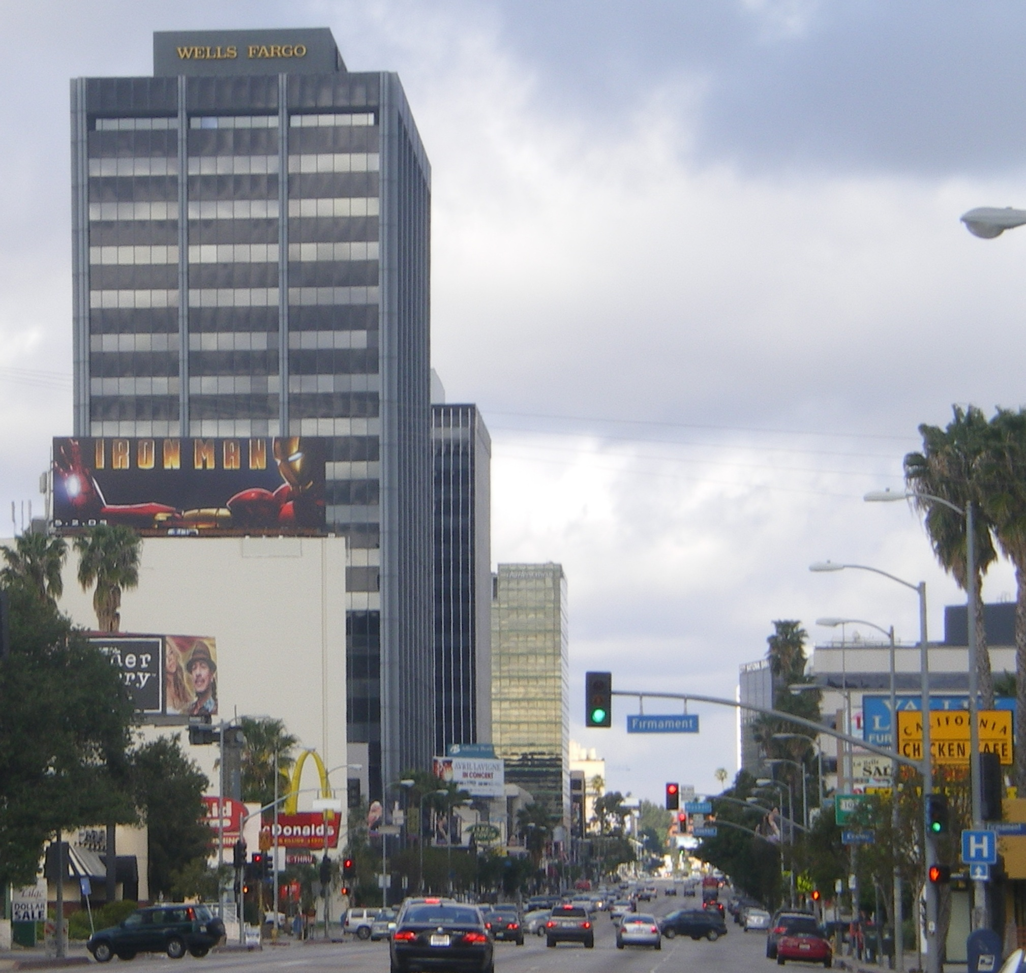 Ventura Boulevard in Encino, Los Angeles. San Fernando Valley, Southern California.